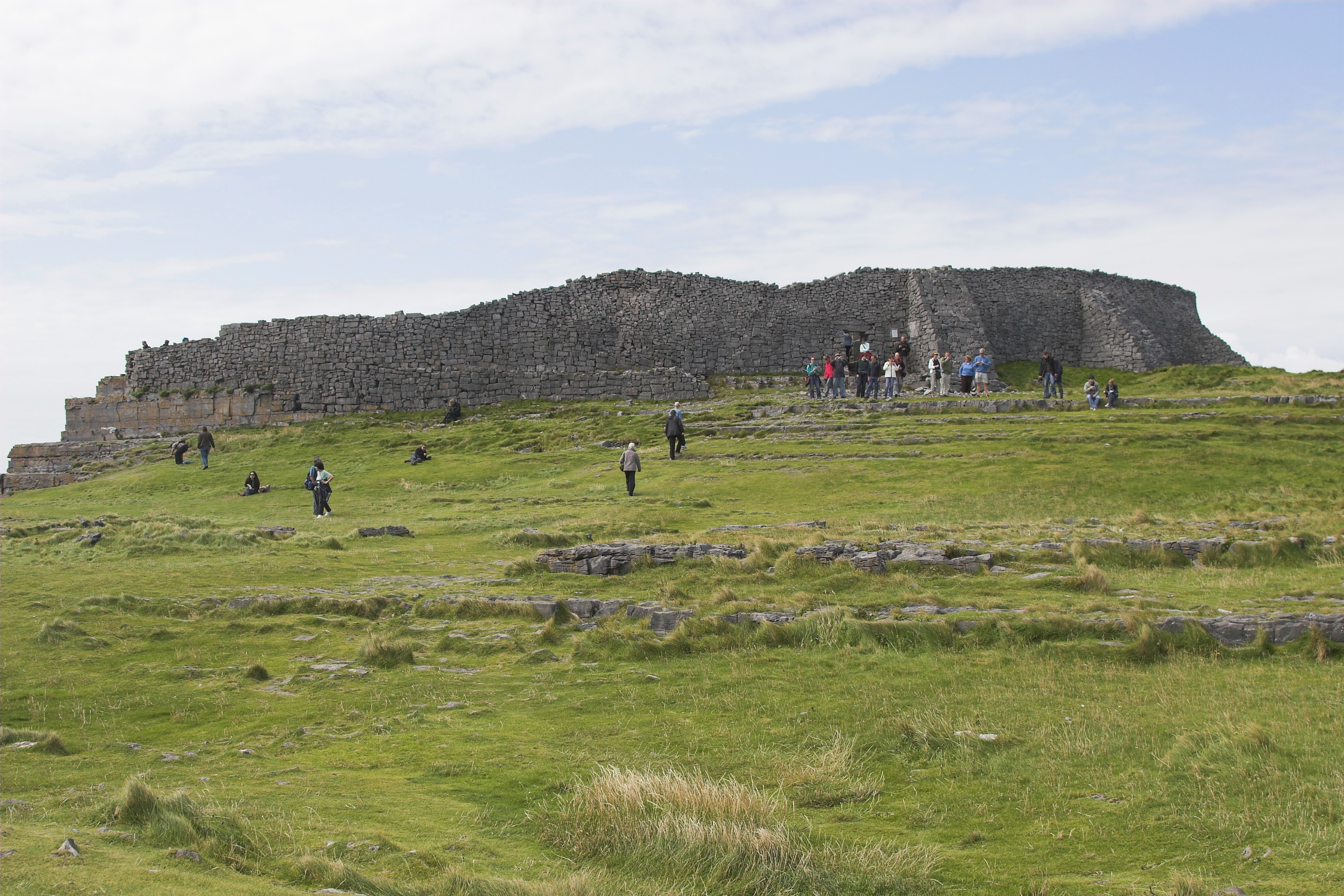 Dún Aengus, prehistoric fort on the island of Inishmore.